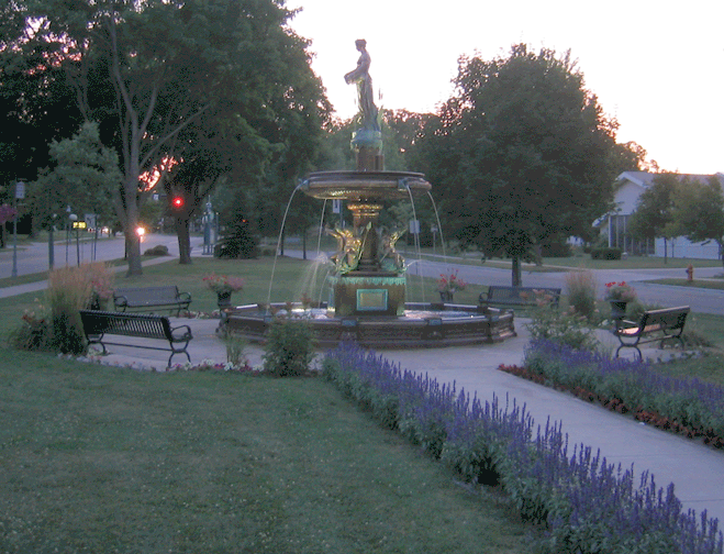 The Birge Fountain, shown from the side, was established in 1903 then renovated and rededicated in 2003. Photo taken on July 21, 2007 - Photographer: Kirk Hrabrich